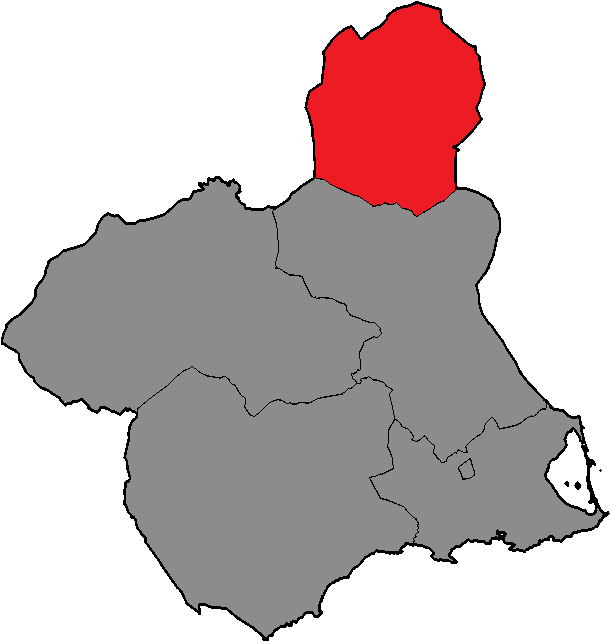 Murcian Regional Assembly District Five.